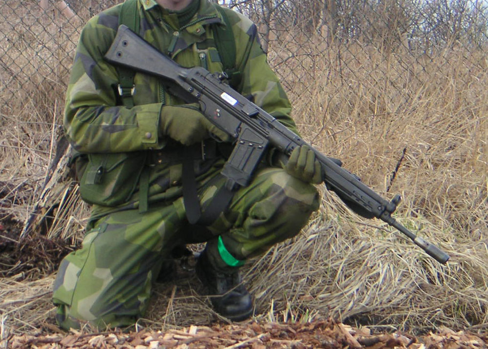 Soldier demonstrating gun safety by keeping the fingers off the trigger and the weapon pointed in a safe direction even while it is safetied.